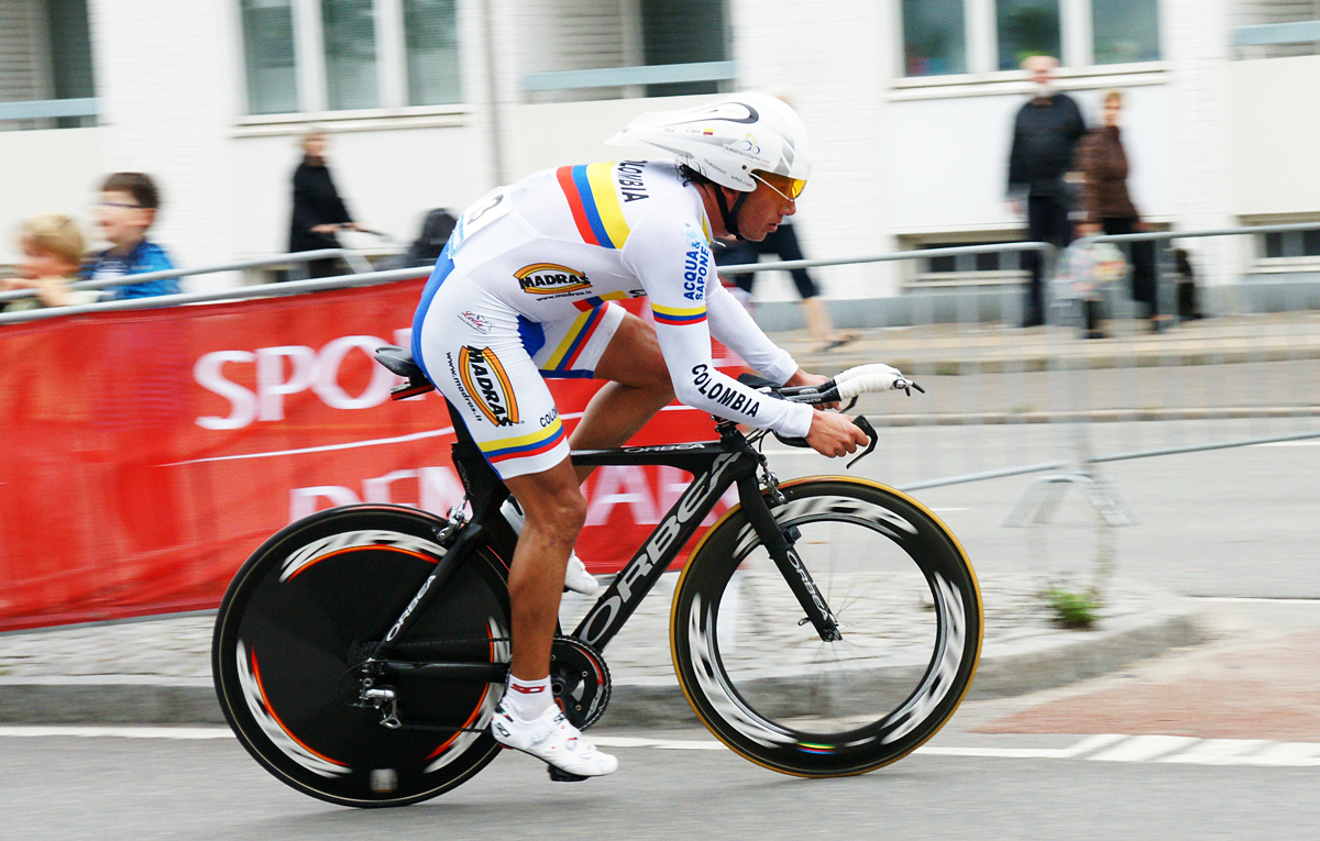 2011 UCI Road World Championships – Men's time trial - Ivan Casas (Iván Mauricio Casas Buitrago), Colombia